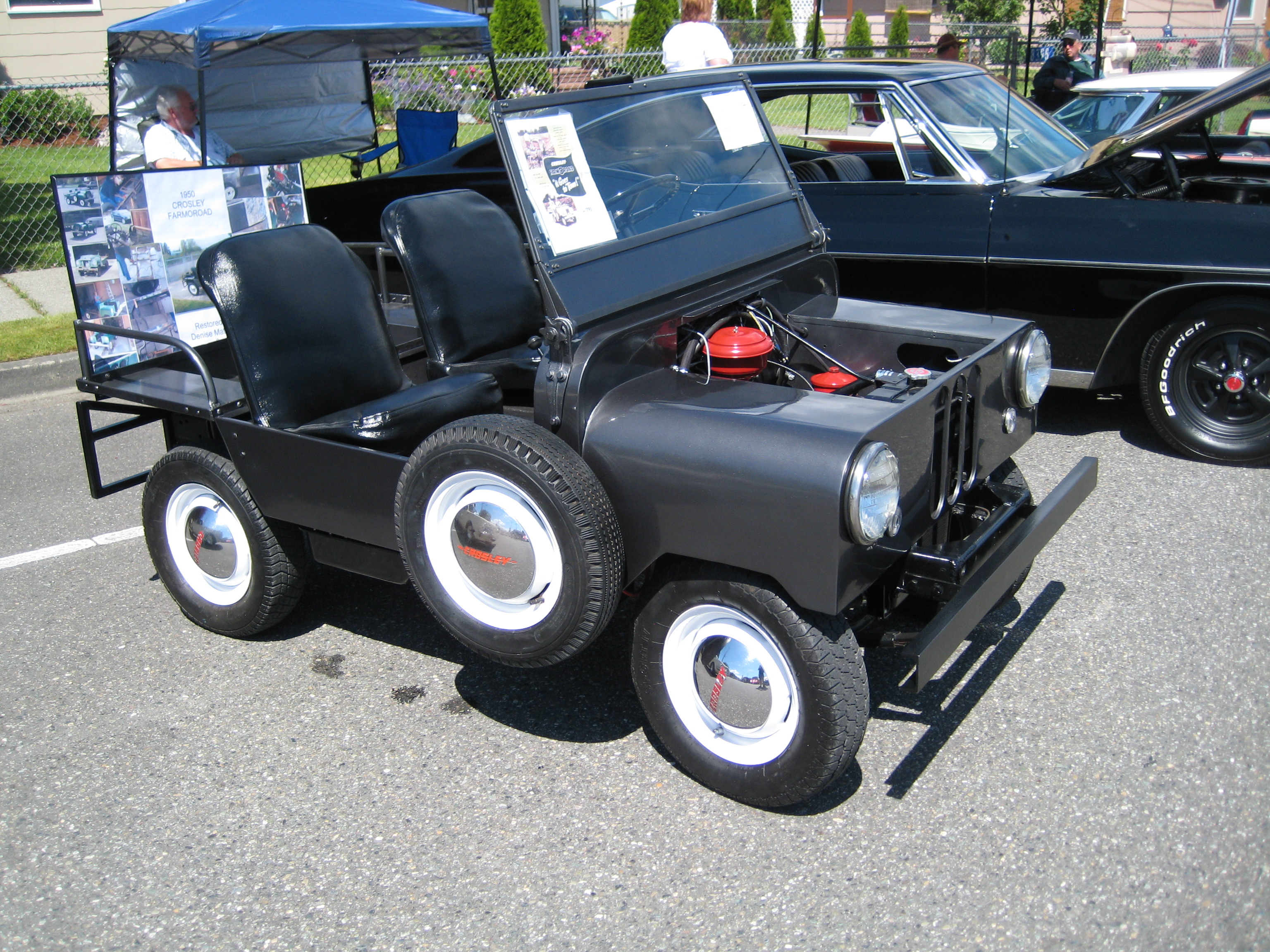 A Crosley Farm-O-Road on display in Lyman, Washington